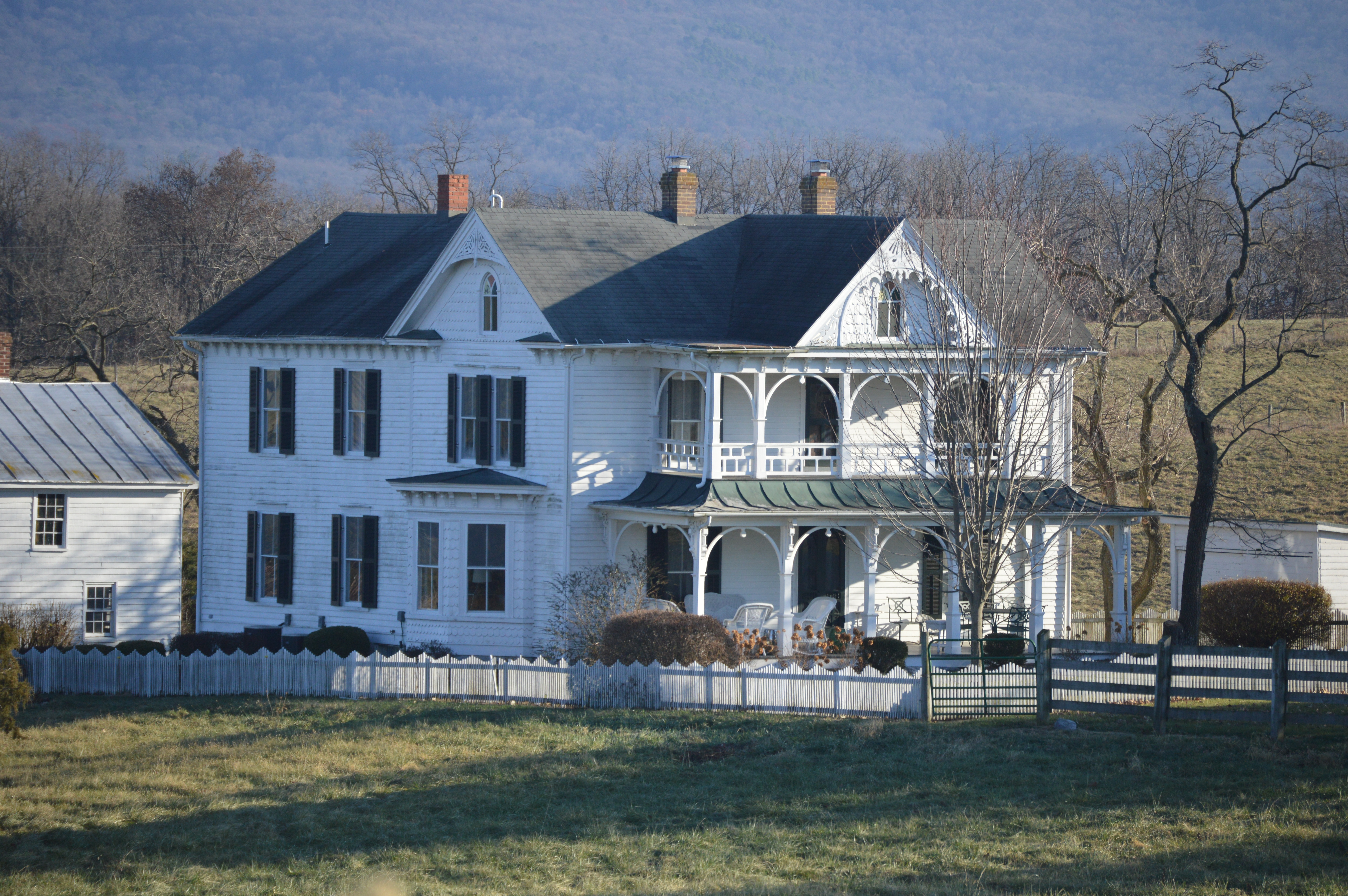 Front and northern side of the Clem-Kagey Farmhouse, located at 291 Belgravia Road southwest of Edinburg in Shenandoah County, Virginia, United States. Built in 1880, it is listed on the National Register of Historic Places.